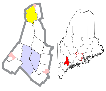 Map of the divisions of Androscoggin County, Maine, United States, with the town of Livermore highlighted in yellow. The cities of Auburn and Lewiston are light blue; other towns are white; and pink areas are census-designated places within towns.